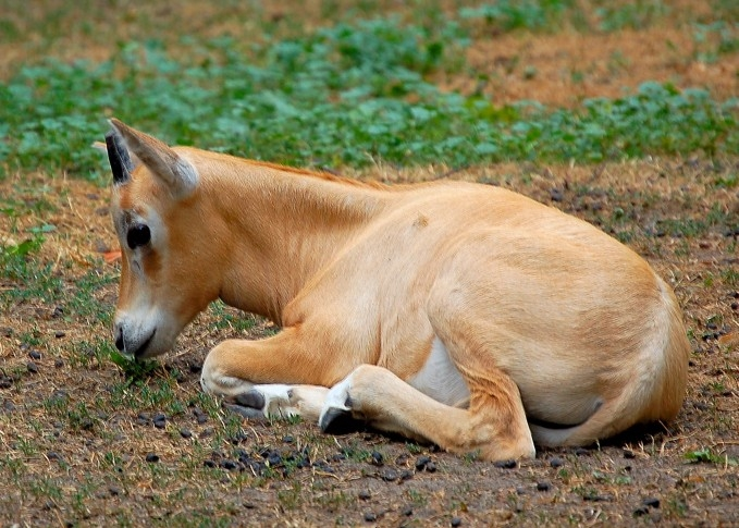 Young Scimitar Oryx with its mother in Warsaw Zoo.